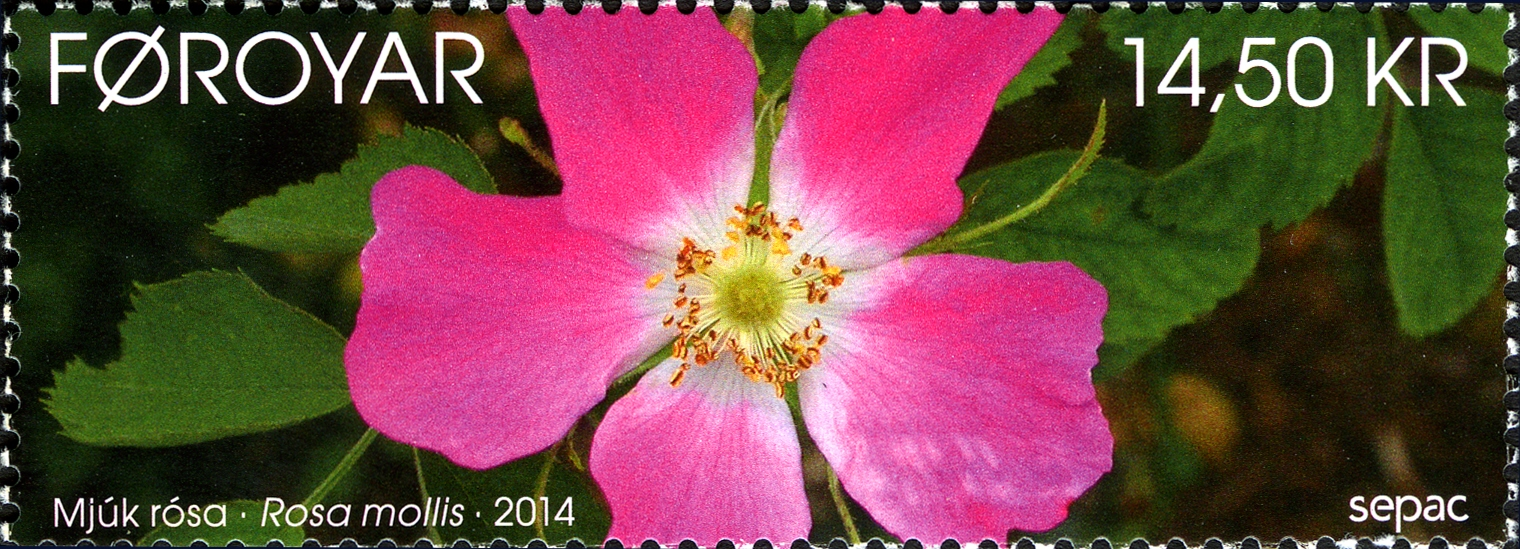 Stamp FO 783 of the Faroe Islands: Flowers - soft downy rose (Sepac 2014).